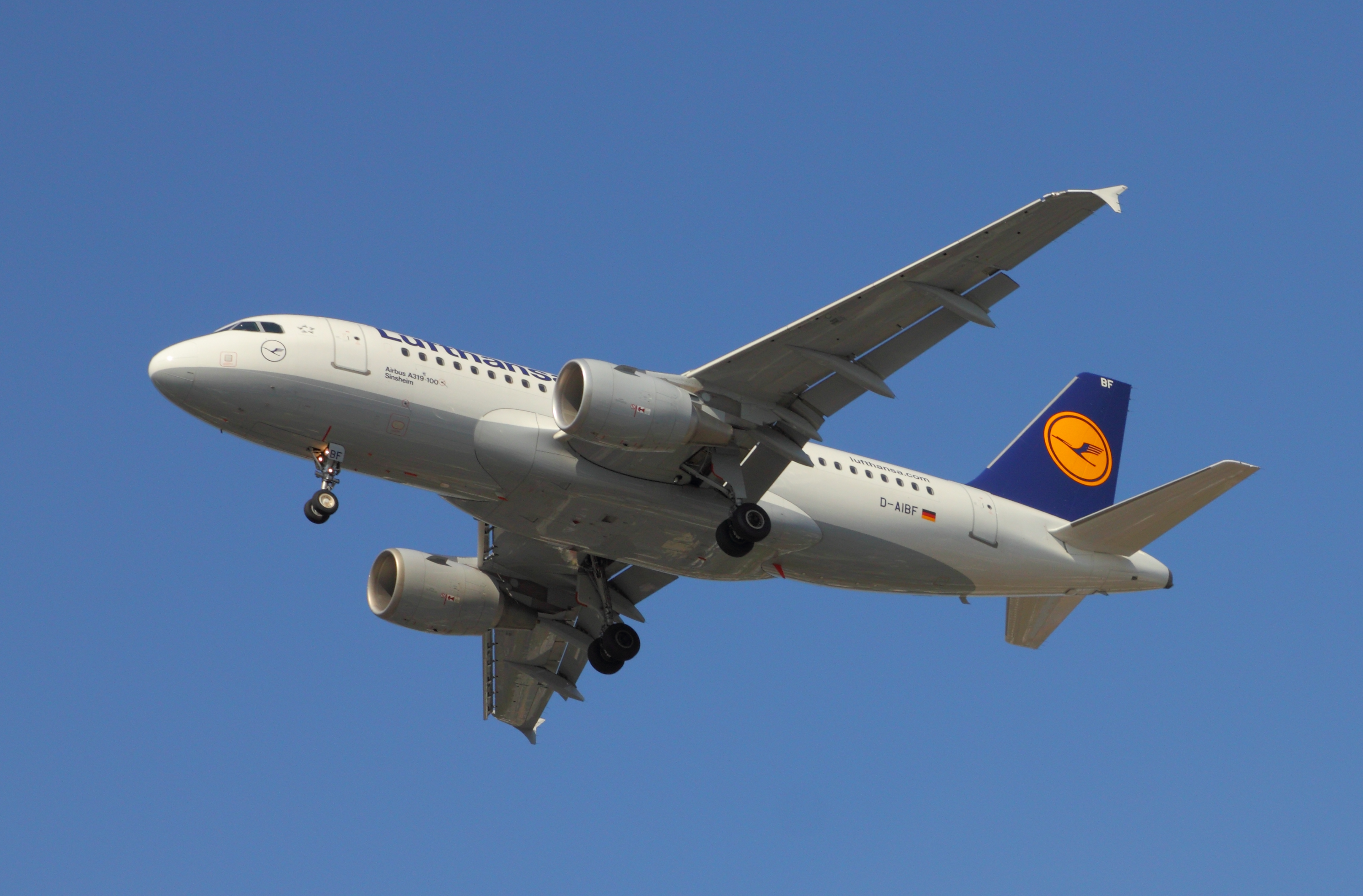 Lufthansa passenger aircraft D-AIBF „Sinsheim“ approaching Berlin-Tegel.